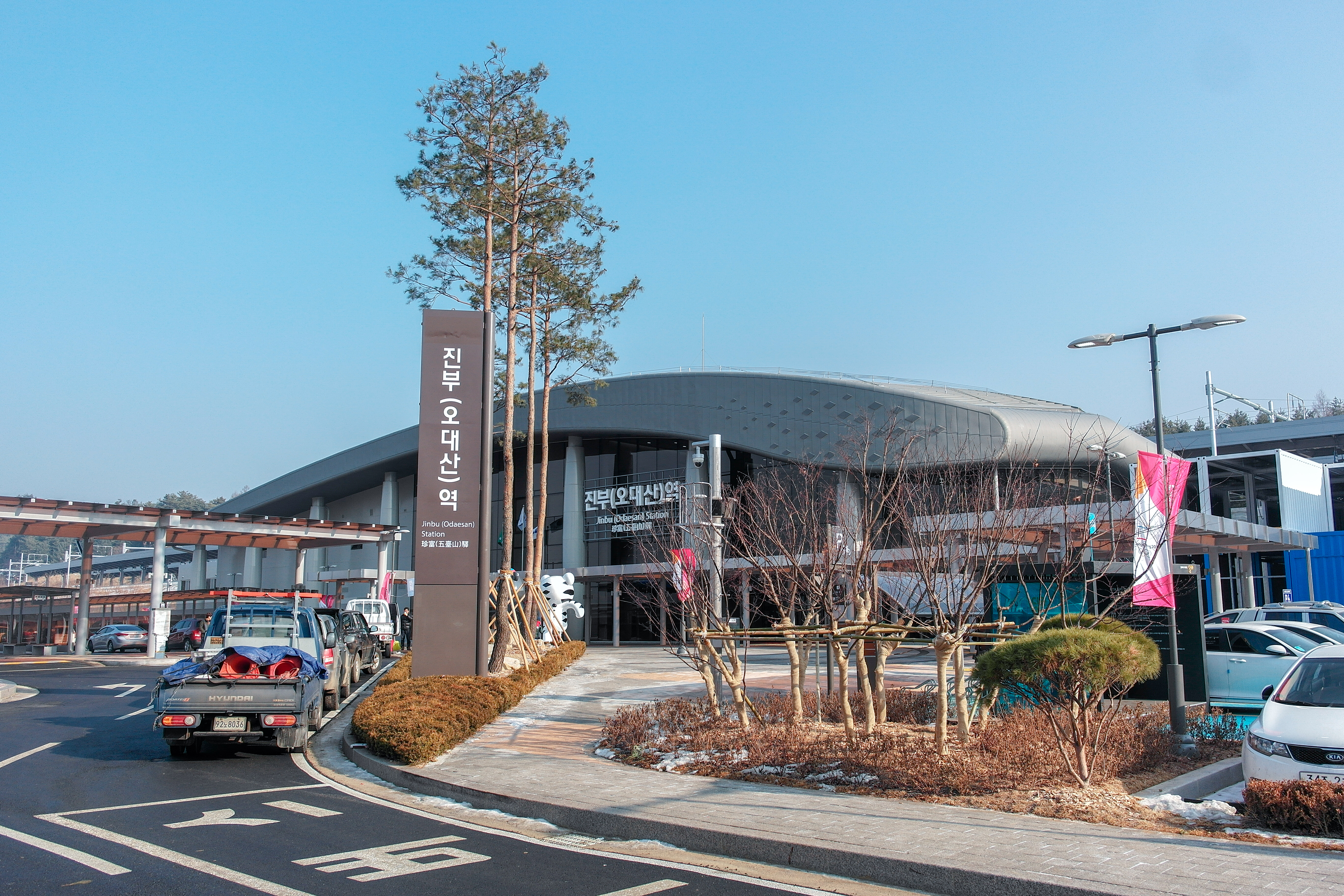 KTX Jinbu Station opening, 22 Dec 2017